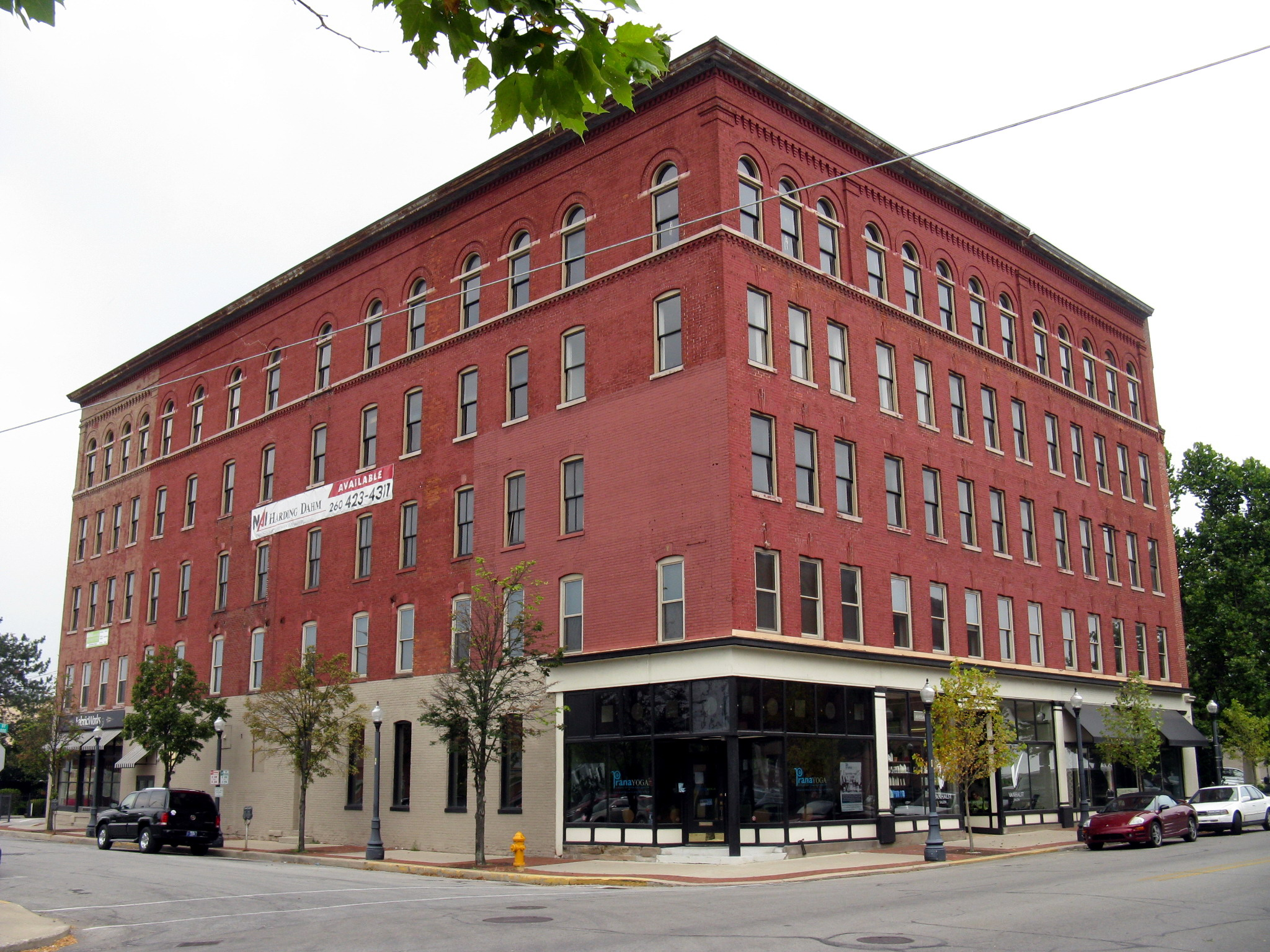 The National Register-listed Randall Building at 616 and 618 S. Harrison St. in Fort Wayne, Indiana. The building originally served as a hotel, the Clifton House.